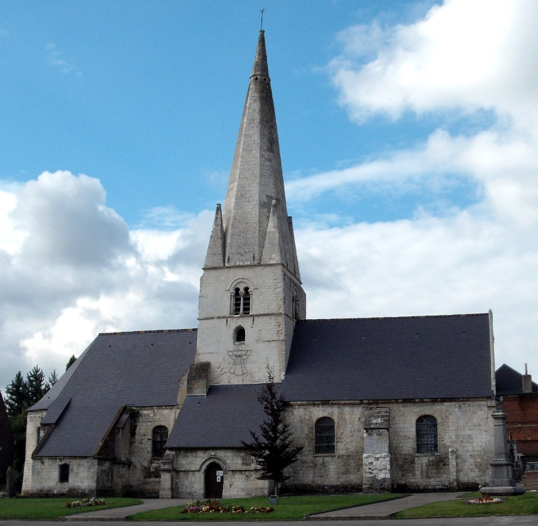 The church of St Martin, Esquerdes